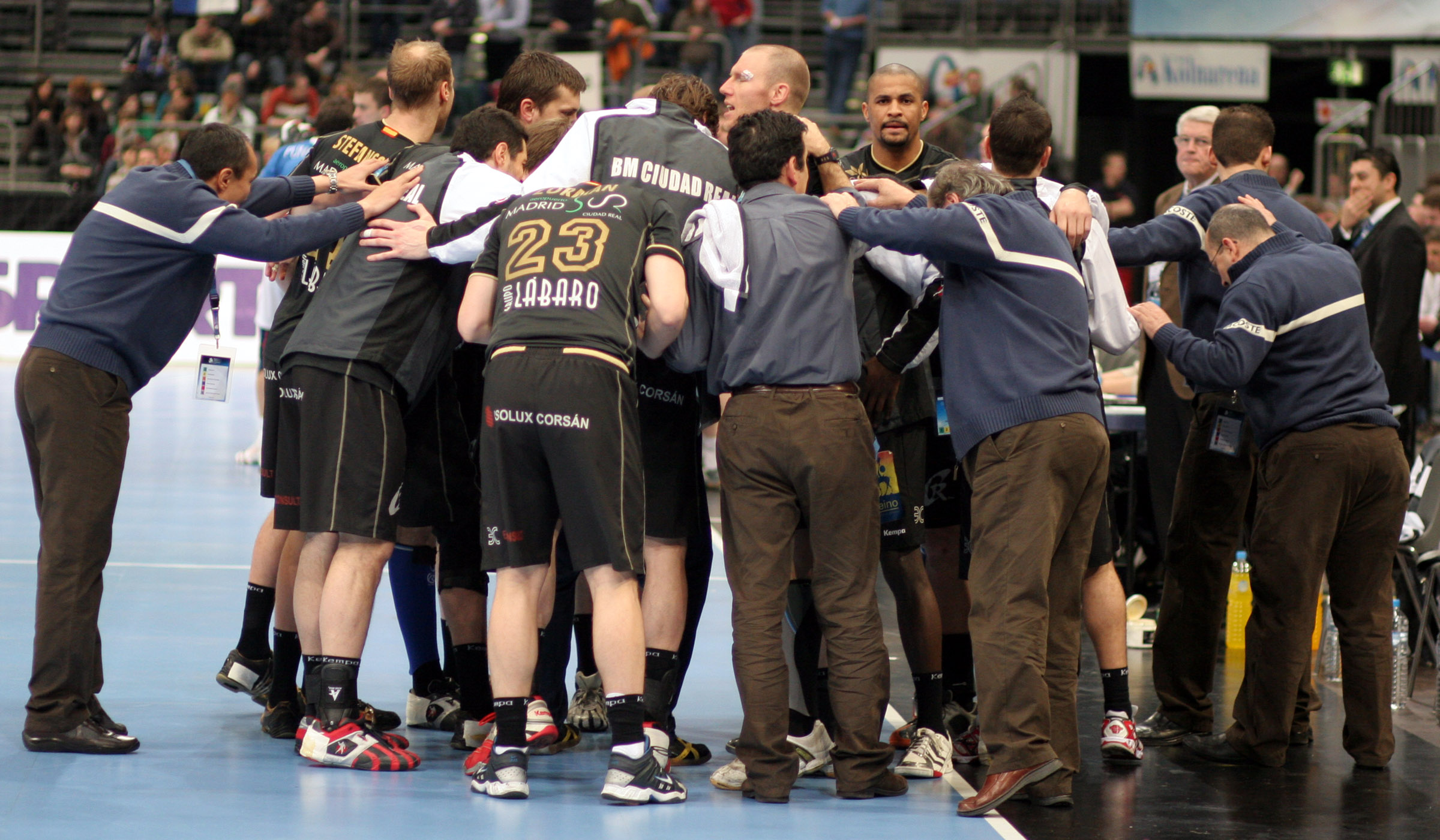 The team of BM Ciudad Real (Spain), in the Kölnarena having a team time out during the champions league game VfL Gummersbach vers. BM Ciudad Real on February 20th, 2008